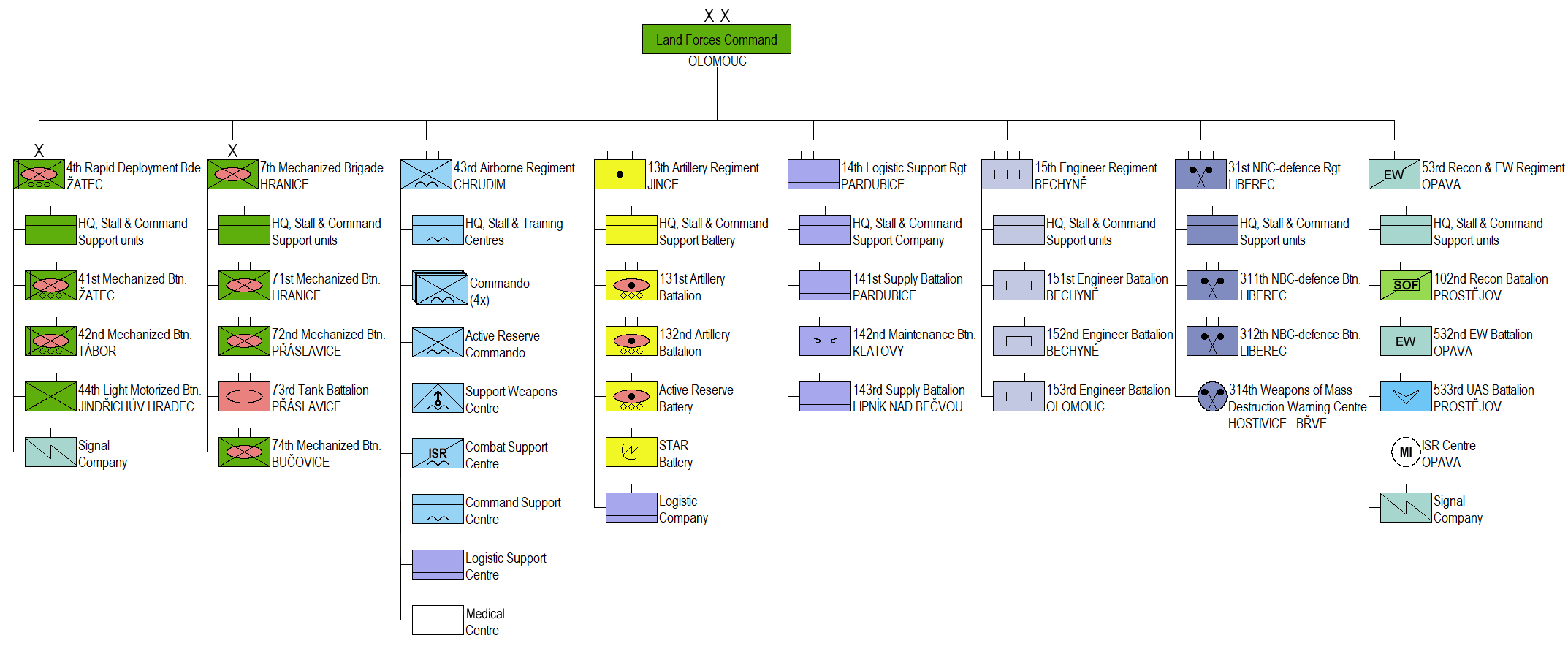 Organizational structure of the Czech Land Forces in 2020.